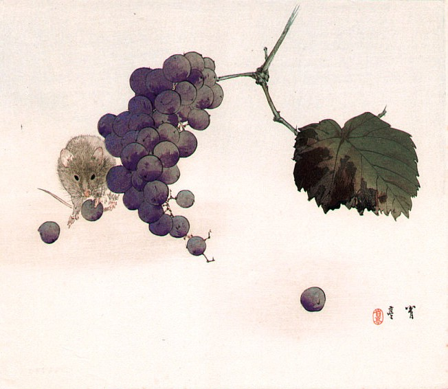 Mouse and grapes